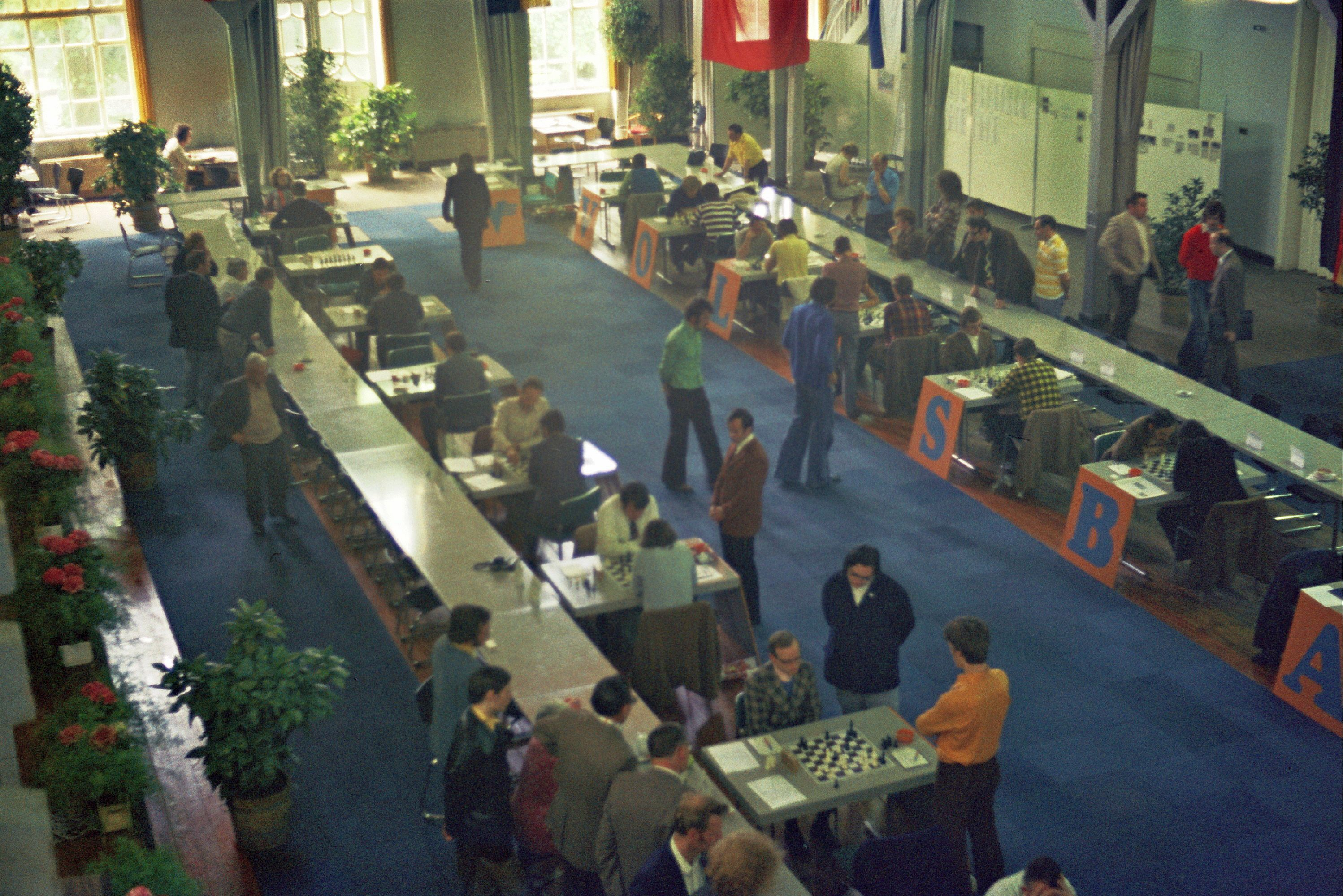 Tournament hall of the German Chess Championship 1974